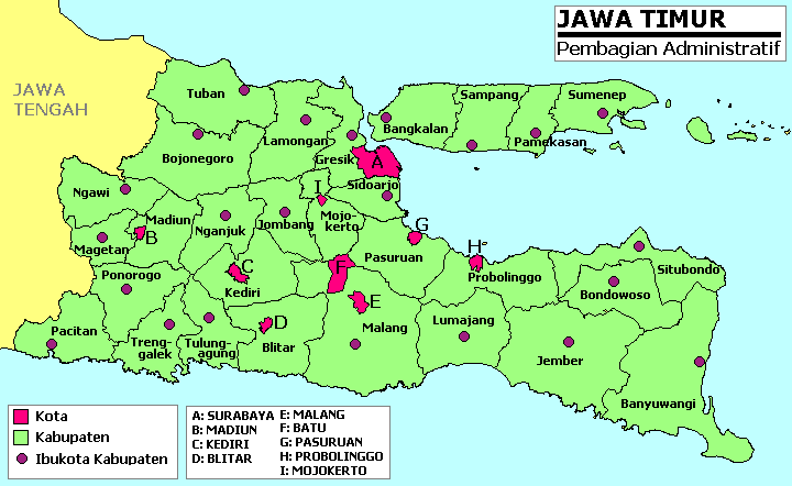 East Java province, Indonesia